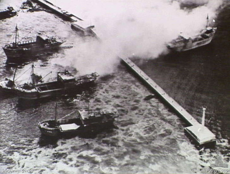 Japanese wooden luggers air bombed by carrier based aircrafts of the USN 3rd Fleet anchored in Hachinohe harbour.